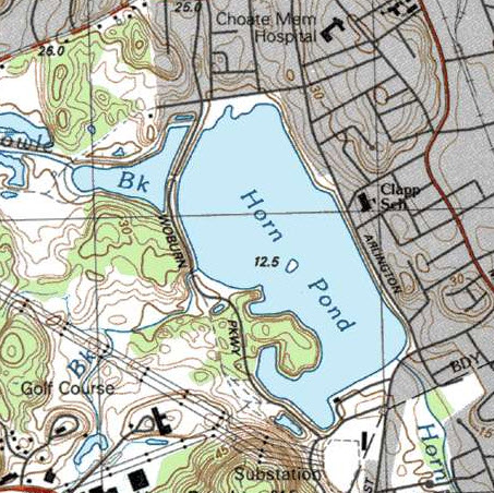 Detail view of USGS Topographical Map for Woburn, Massachusetts, USA showing Horn Pond.